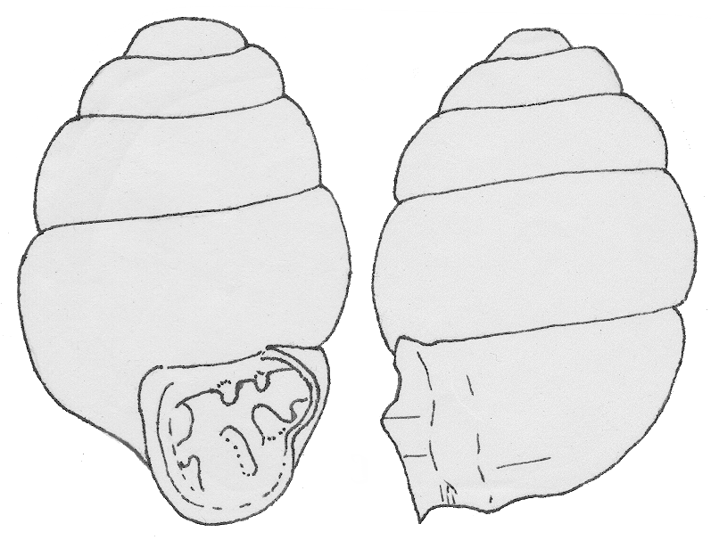 Vertigo antivertigo - Pulmonate landsnail shell; Holocene deposits outcrop Donau Moos near Pöttmes, Germany